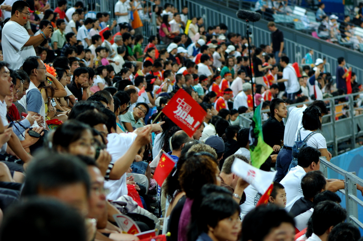 Baseball at the 2008 Summer Olympics, China v. USA, Group stage.